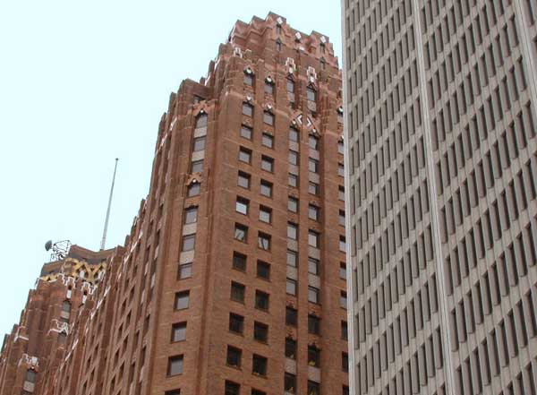 Office buldings in downtown Detroit, Michigan. At left, the Guardian Building, built in 1929, is a prime example of Art Deco architecture. At right, the One Woodward Avenue, built in 1962 and designed by Minoru Yamasaki, epitomizes the Modernist school of design. Originally designed for the Michigan Consolidated Gas Company (MichCon), this was Yamasaki's first highrise structure. (taken Sept. 28, 2004)